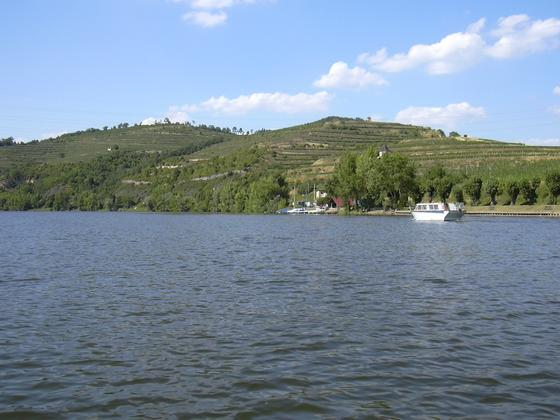 Elbe at Malé Žernoseky from a ferry. Vineyards on a hill at Velké Žernoseky